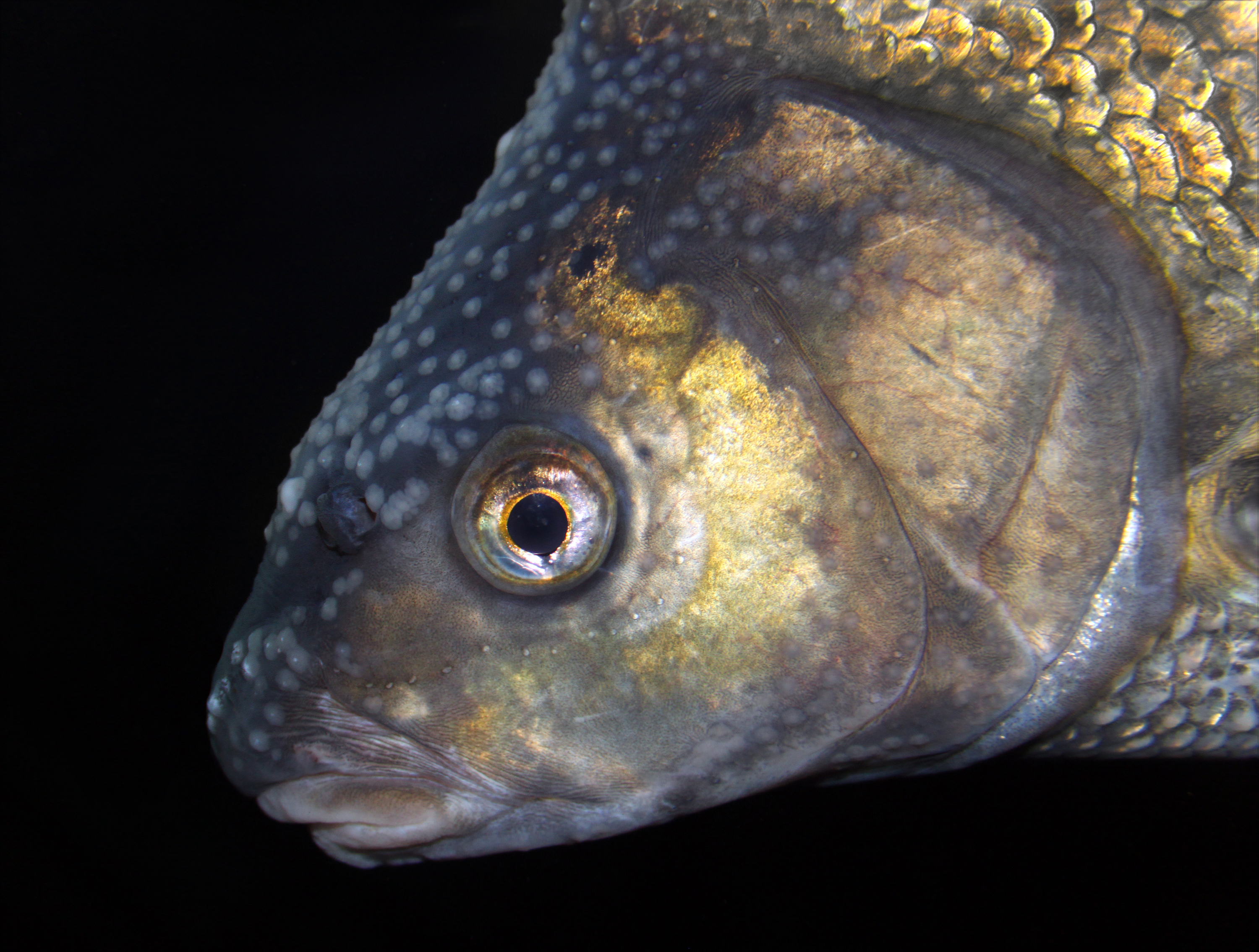 Spawn rash on the head of a Common Bream, Freshwater Bream, Bream, Bronze Bream or Carp Bream, Abramis brama, Family: Cyprinidae, Location: Southern Germany, Ulm, Tiergarten.